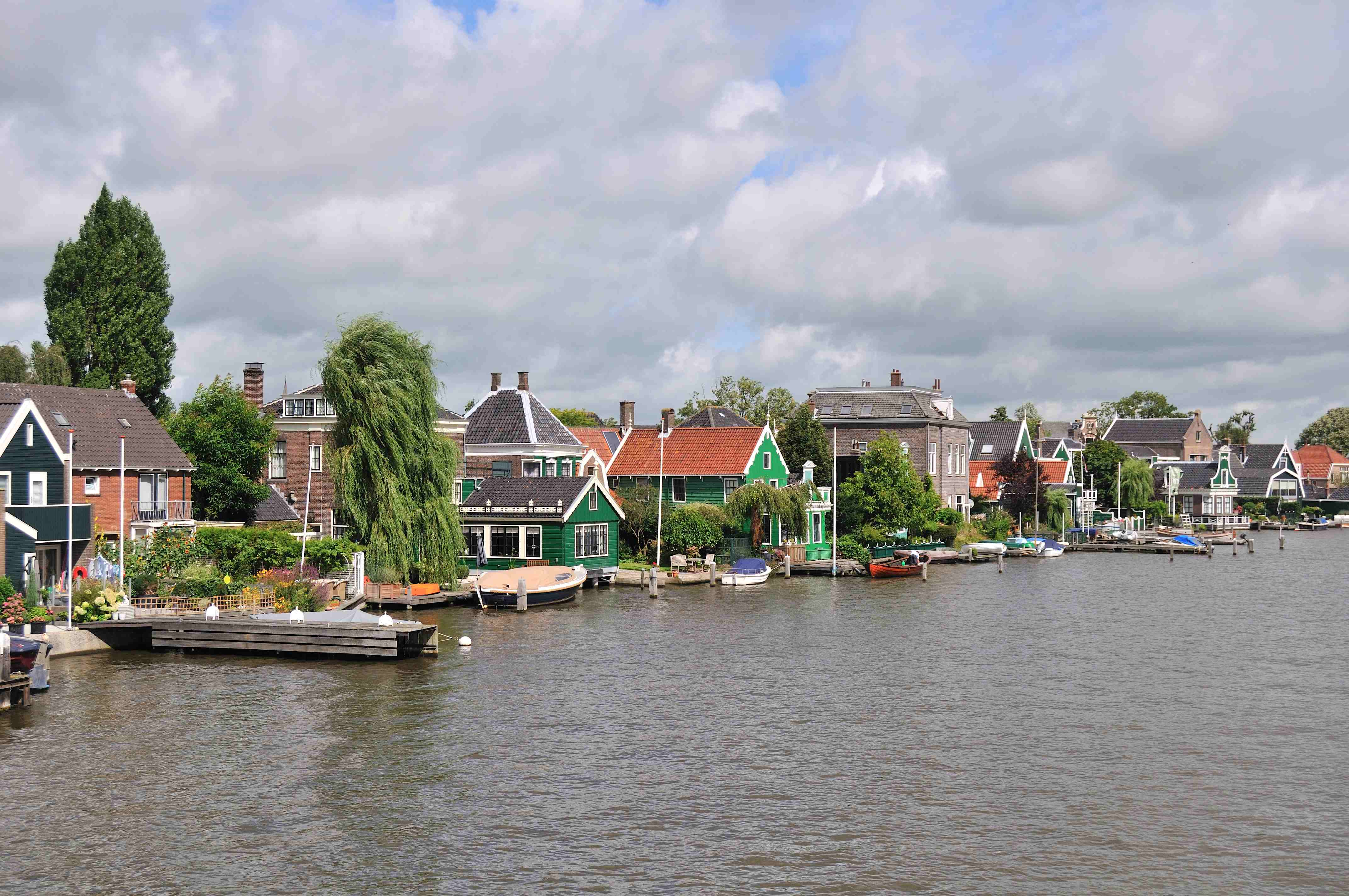 Gortershoek Zaandijk, opposite Zaanse Schans, Zaanse Schans.